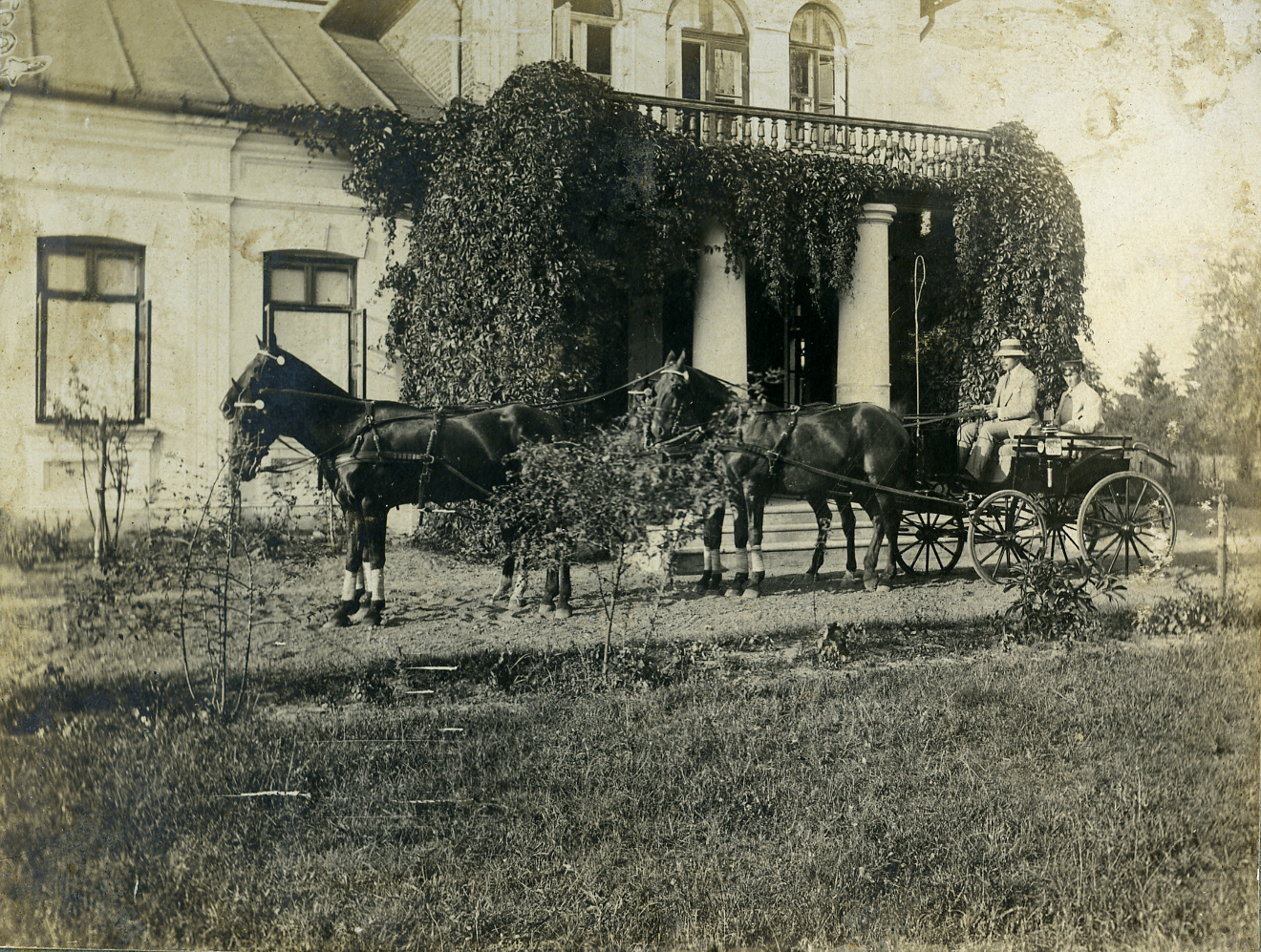 House of Jan Kostrzeński in Rudnik in 1914